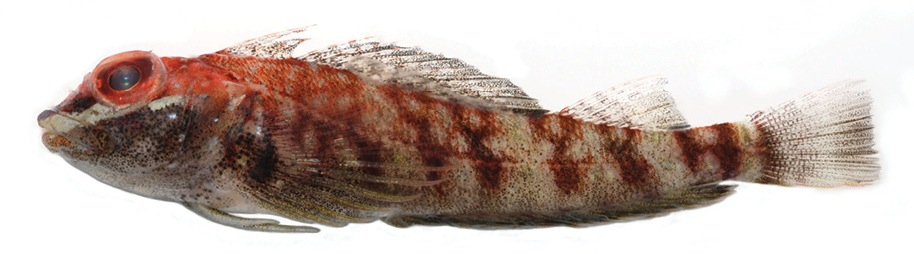 Helcogramma inclinata, NTOU-P 2009-06-054, male, 35.3 mm SL, Nan-ren-road, Pingtung, Taiwan.